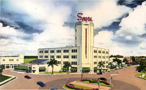 Postcard with a drawing of the historic Sears, Roebuck & Co. store in Miami. Accompanying note "The impressive department store of Sears, Roebuck & Co. in Miami as on the outstanding Sears stores in the country. The plant with parking areas covers parts of two blocks. The front N.E. 13th to 14th Streets on Biscayne Blvd. 92,000 sq. ft. of selling space carries all lines of merchandise. The store is noted for its beauty and tropical atmosphere. While located in Miami, it is also easily accessible to Miami Beach."